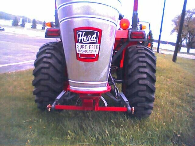 Herd M96 Broadcast Seeder mounted to a Kubota Compact Utility Tractor